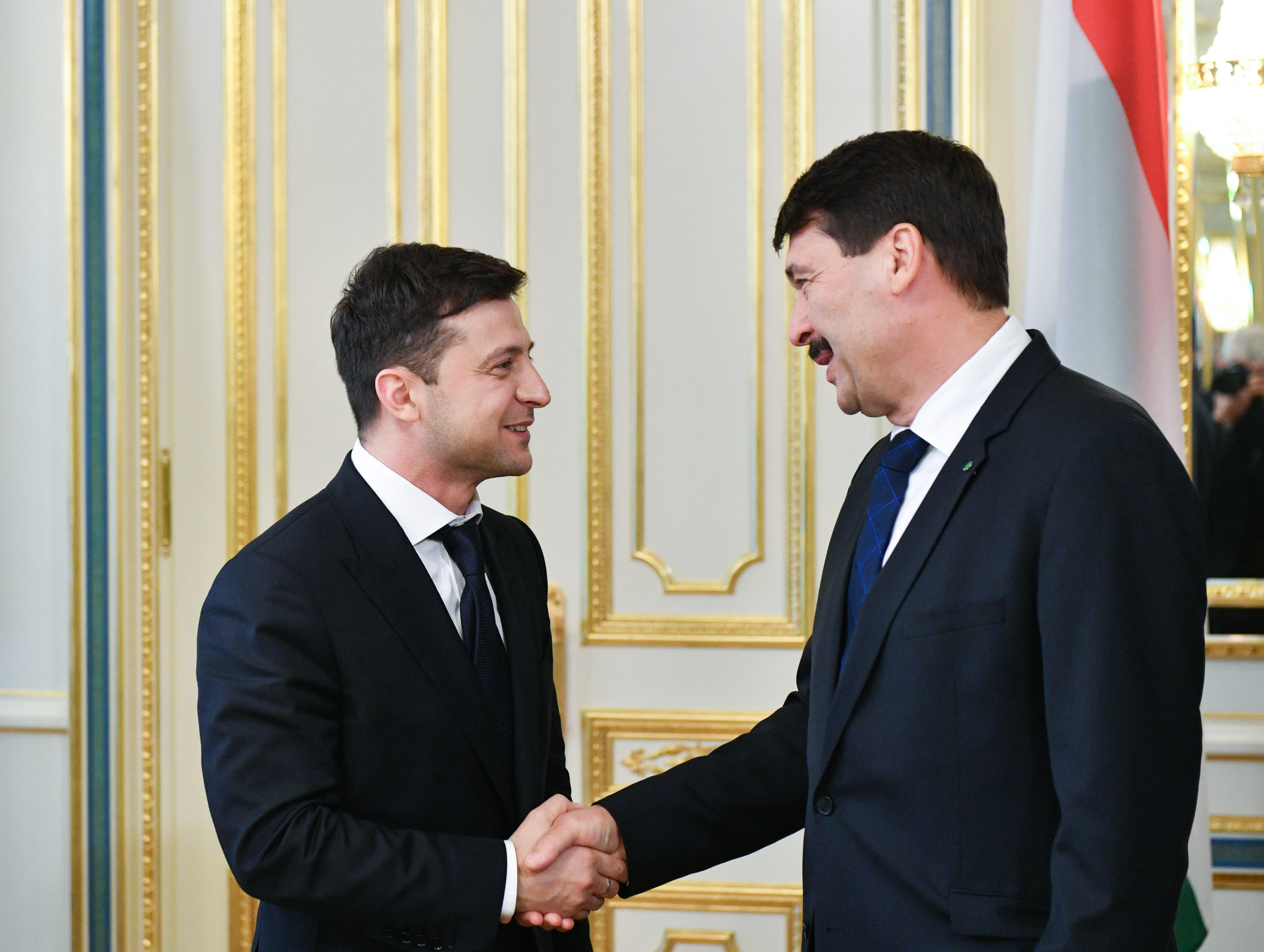 Volodymyr Zelensky with János Áder